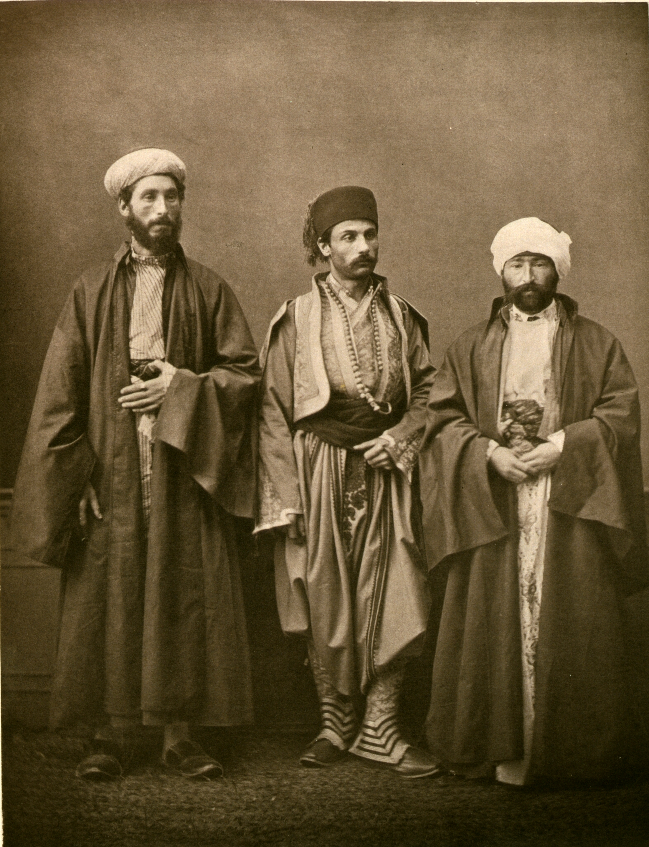 Studio portrait of models wearing traditional clothing from the province of Selanik (Salonica), Ottoman Empire. Summary: (1) Muslim teacher (hoca) of Selanik (Salonica); (2) chief Rabbi of Selanik (Salonica); (3) bourgeois from Monastir (Bitola).